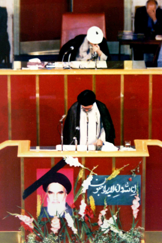 Ali Khamenei reading Will of Ruhollah Khomeini in Majlis